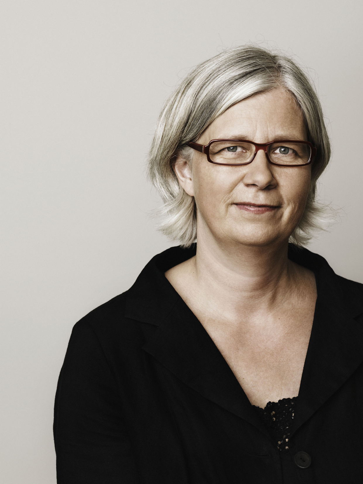 The austrian politician Michaela Sburny, member of the Green Party of Austria